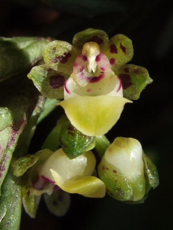 Gastrochilus pseudodistichus flower.